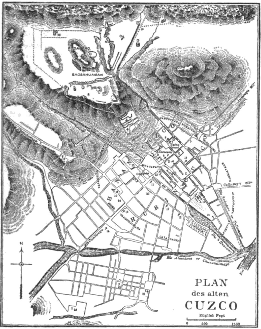 map of Cuzco, by E.G. Squier, c. 1860.